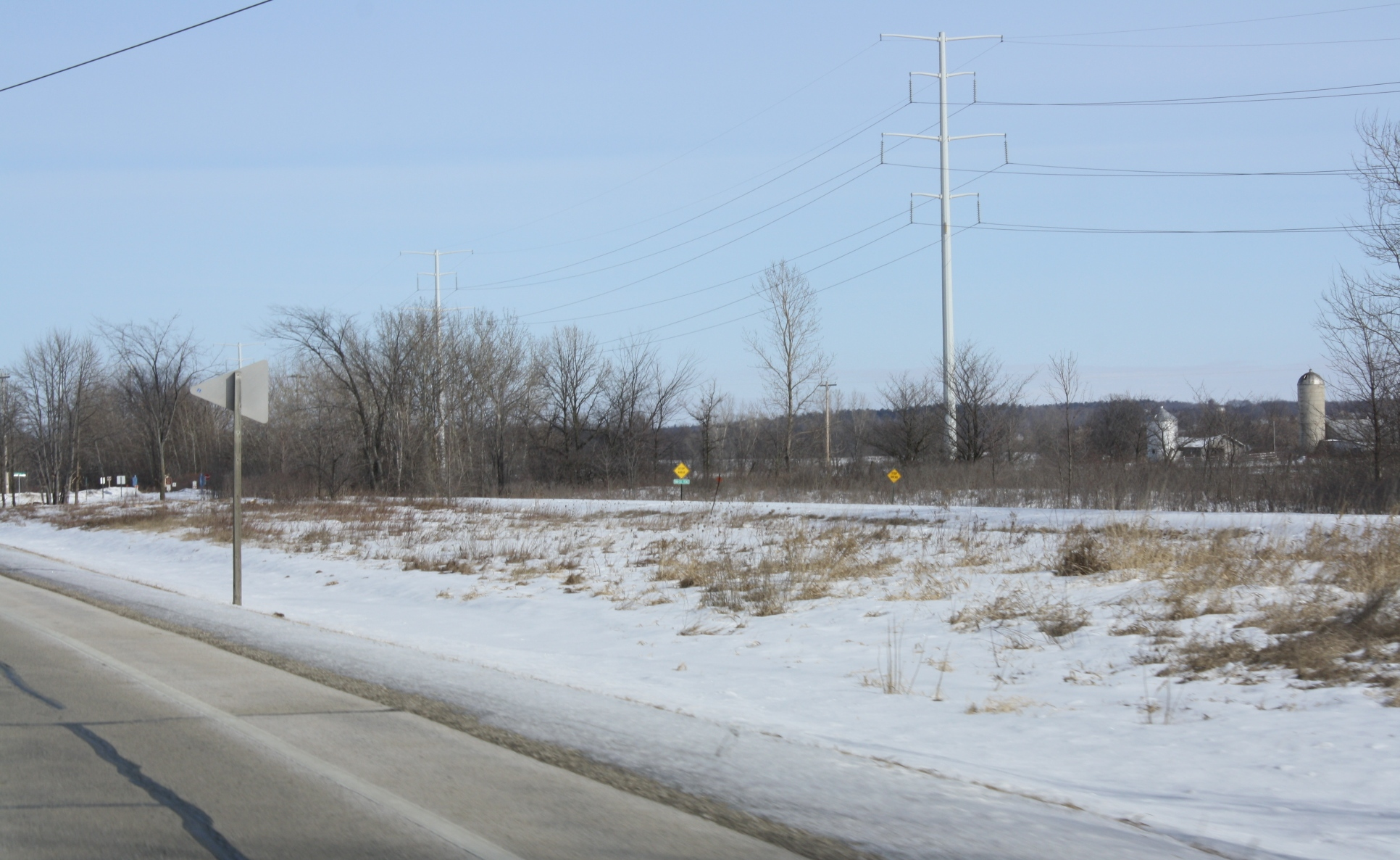 The Fox River State Recreational Trail from Wisconsin Highway 57 / Wisconsin Highway 32 south of Greenleaf, Wisconsin.